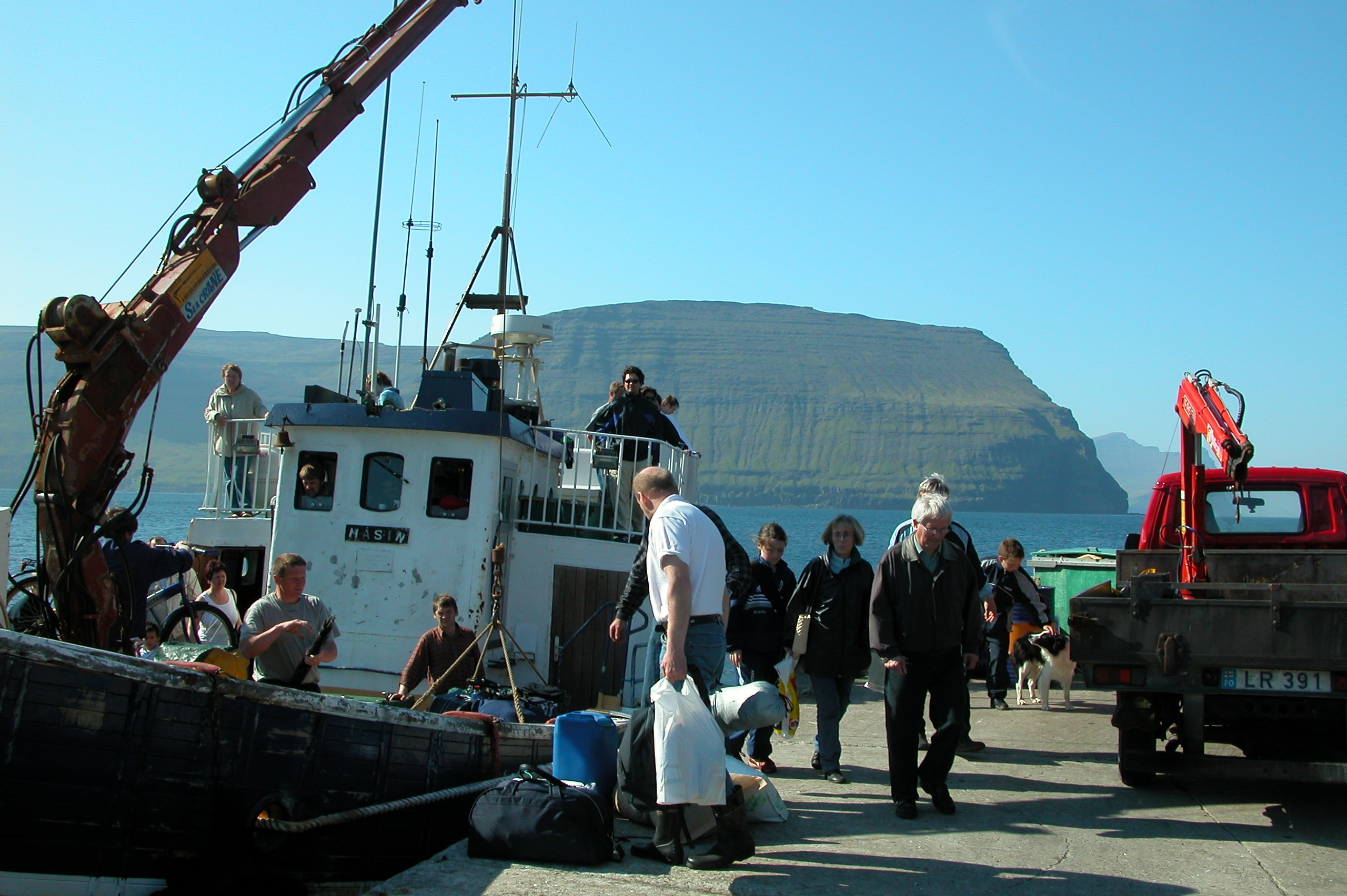 Harbour scene with postboat Másin in Svínoy, Faroe Islands. The island of Viðoy in the background